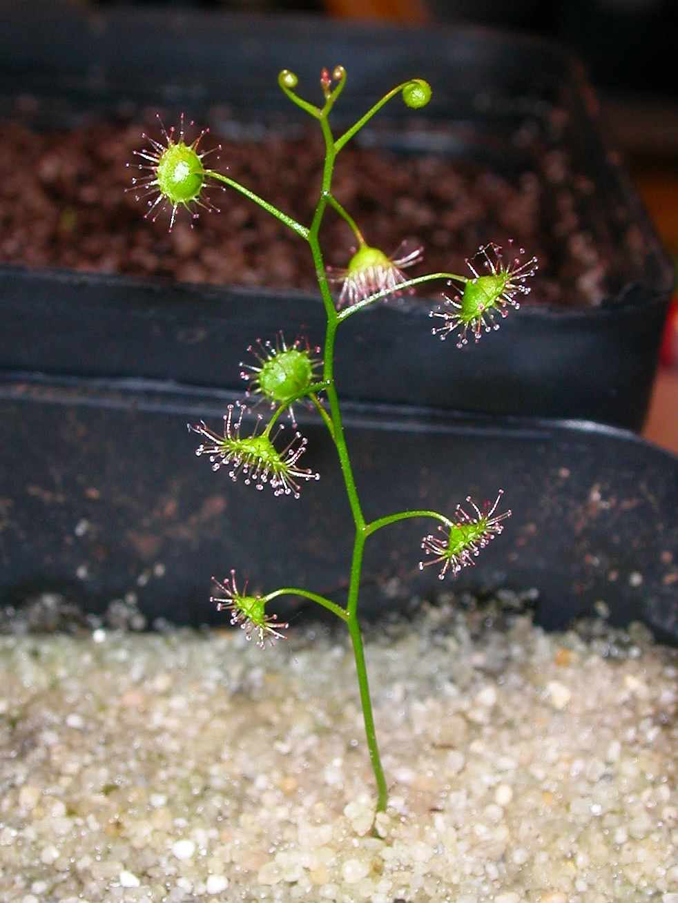 The author licensed this picture in a letter to the uploader as follows: "Ich lizensiere die Bilder [..] unter der GNU-FDL." (Translation: "I license the pictures [..] as GNU-FDL.") Habitus of a Drosera menziesii